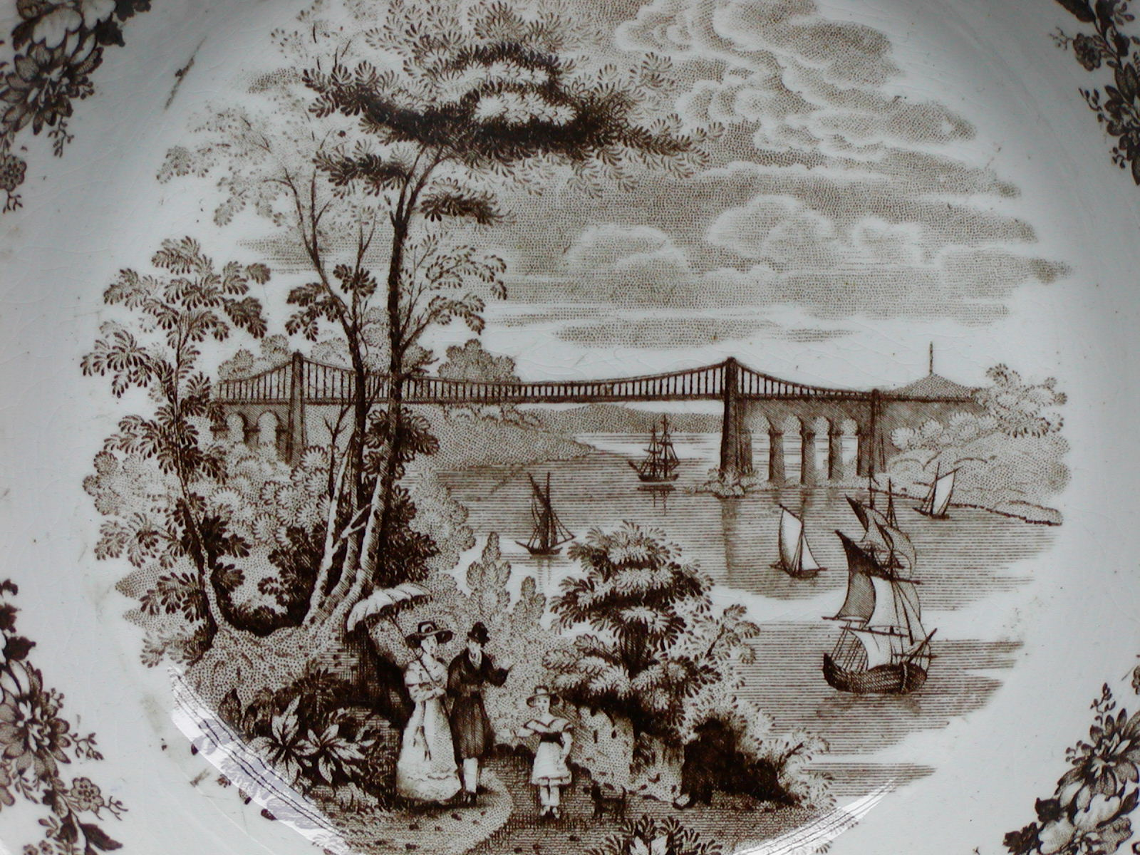 A Staffordshire stoneware plate from the kitchen of Fredrika Runeberg. From a series Select Sketches picturing the Menai Bridge. At the Home museum of Johan Ludvig Runeberg in Porvoo, Finland.